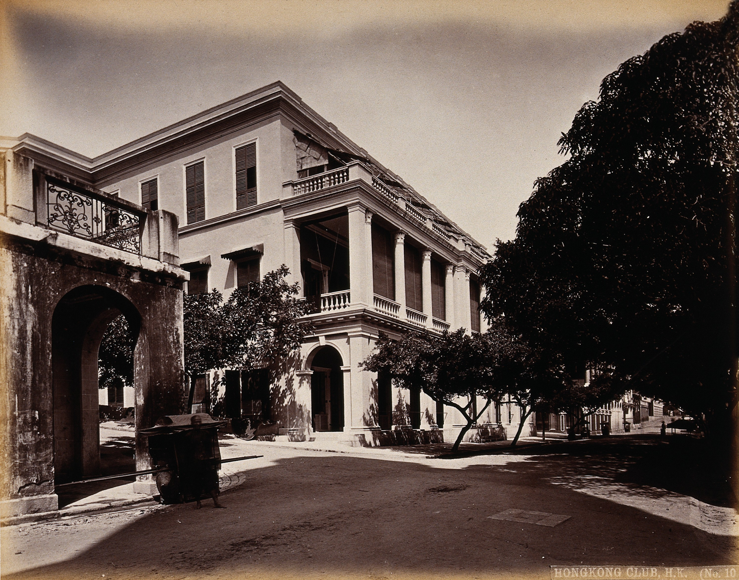 Hong Kong: the HongKong Club building, Wyndham Street. Photograph. Iconographic Collections